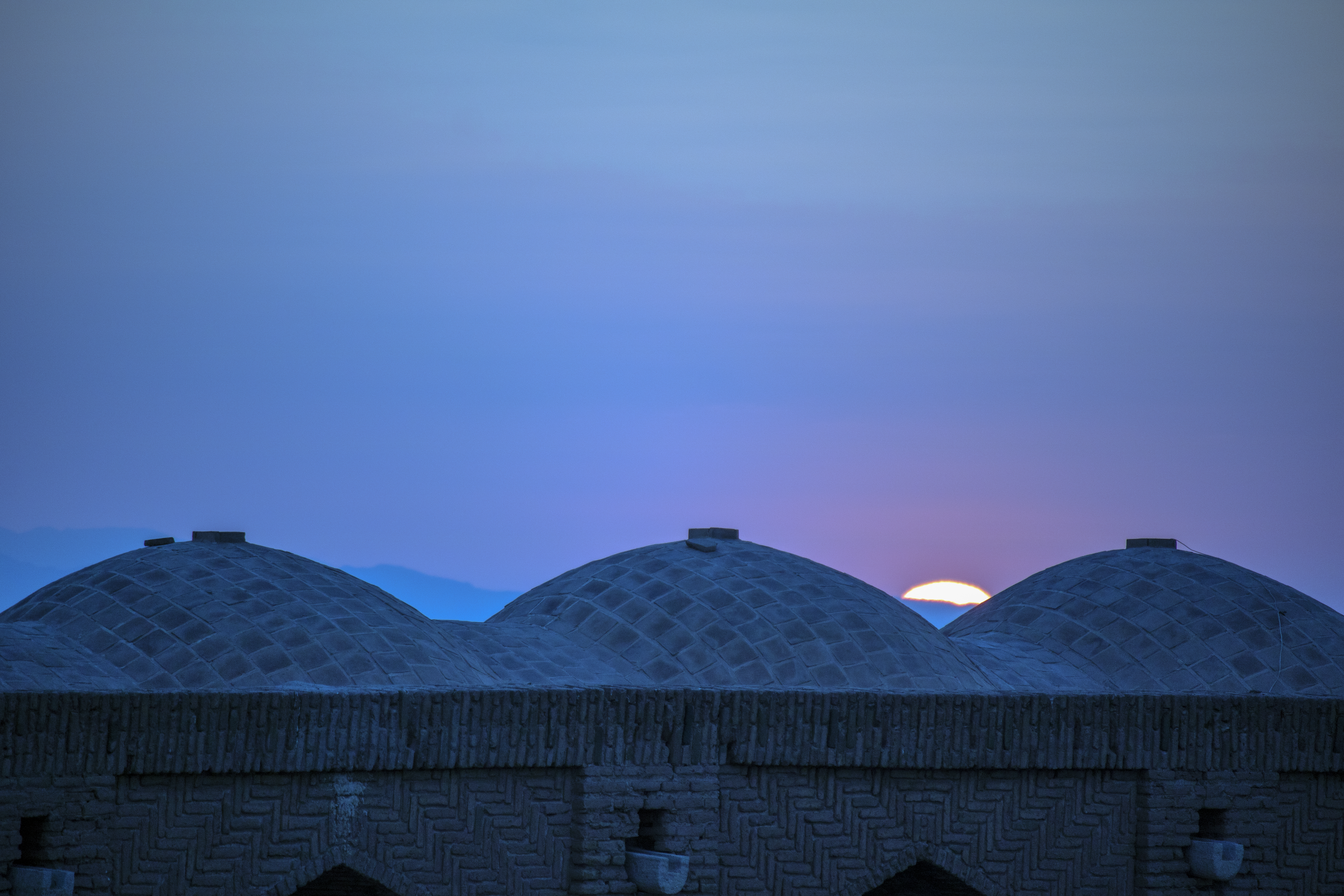 Deir-e Gachin Caravansarai is one of the greatest caravansarais of Iran which is located in the center of Kavir National Park. Its unique qualities is the reason it is called “Mother of Iranian Caravansarais”. It is located in the Central District of Qom County, 80 kilometers north-east of Qom (60 kilometers into Garmsar Freeway) and 35 kilometers south-west of Varamin. (Photo by: Mostafa Meraji, wiki loves monuments 2018)